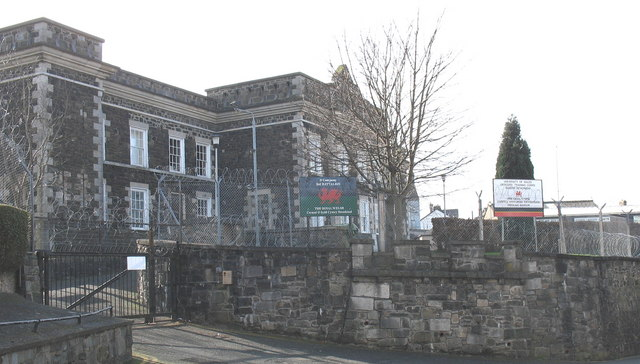 Caernarfon Barracks Home of 10 Platoon of D Coy. (RWF) of the 3rd Batt. Royal Welsh - Y Cymry Brenhinol, of Bangor/Lampeter Wales OUTC, and of ex-L/Cpl Billy, former mascot of the 6/7th Batt. RWF. 351393